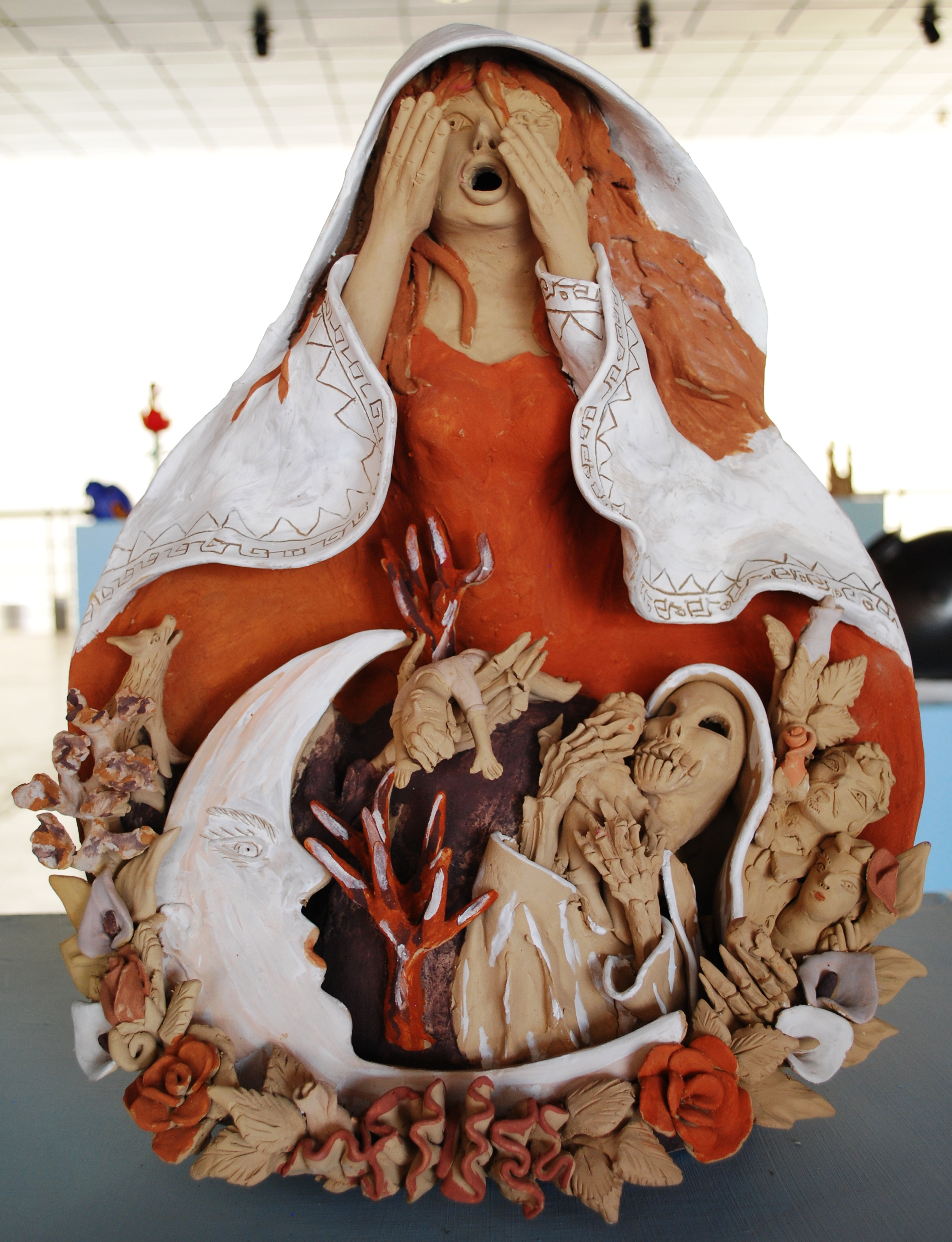 "Duelo" by Angelica Vasquez Cruz of Santa Maria Atzompa at Museo Estatal de Arte Popular de Oaxaca in San Bartolo Coyotepec, Oaxaca, Mexico. See COM:CRT/Mexico#Freedom of panorama